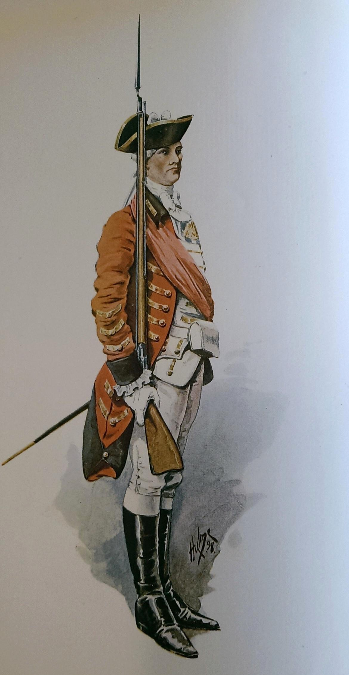 An antique print of an officer of the Norfolk Militia, 1759